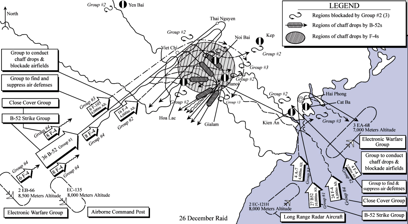 Linebacker II – 26 December Raid.